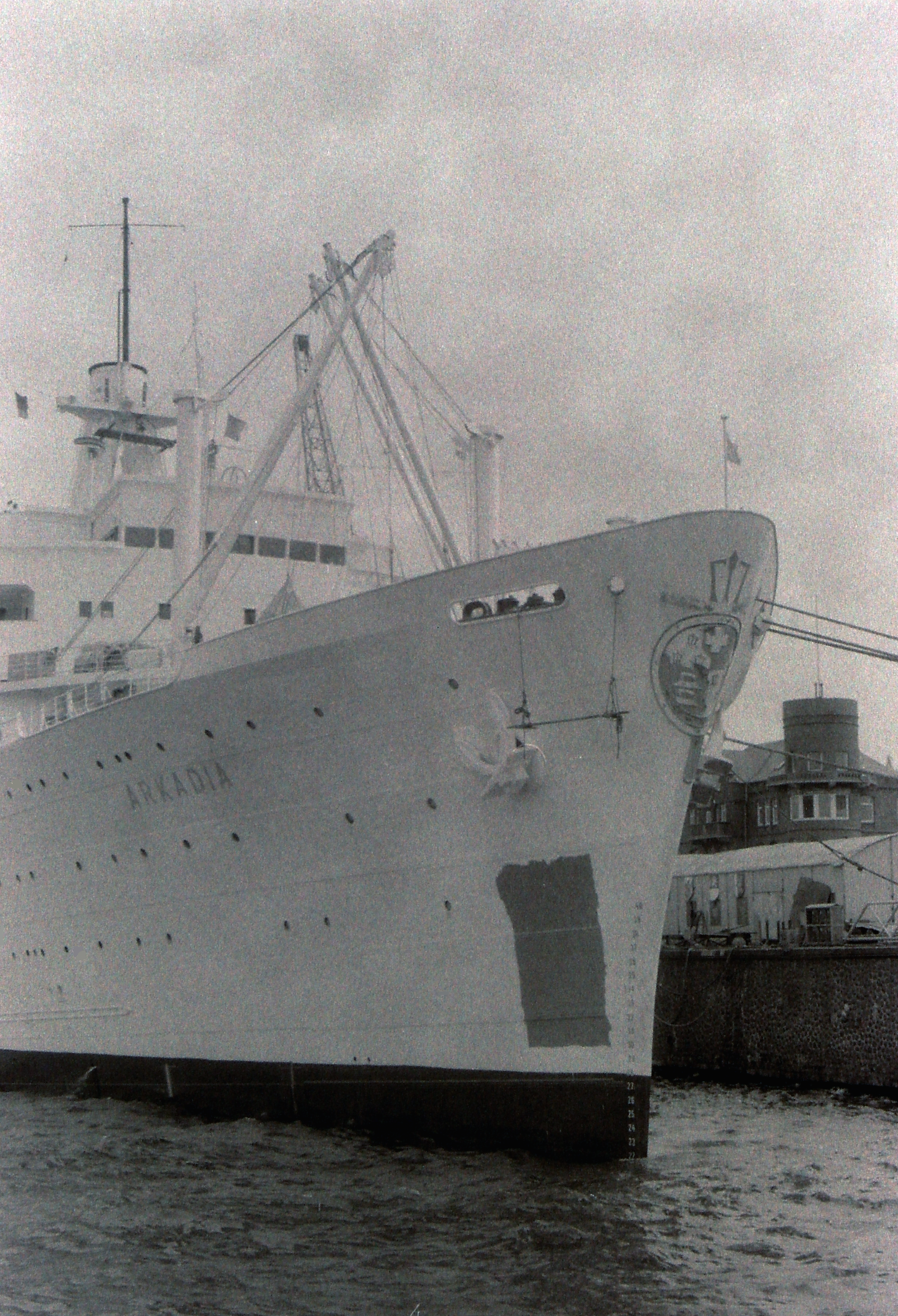 Passenger ship Arkadia of the Geek Line in the harbor of Hamburg - 1965